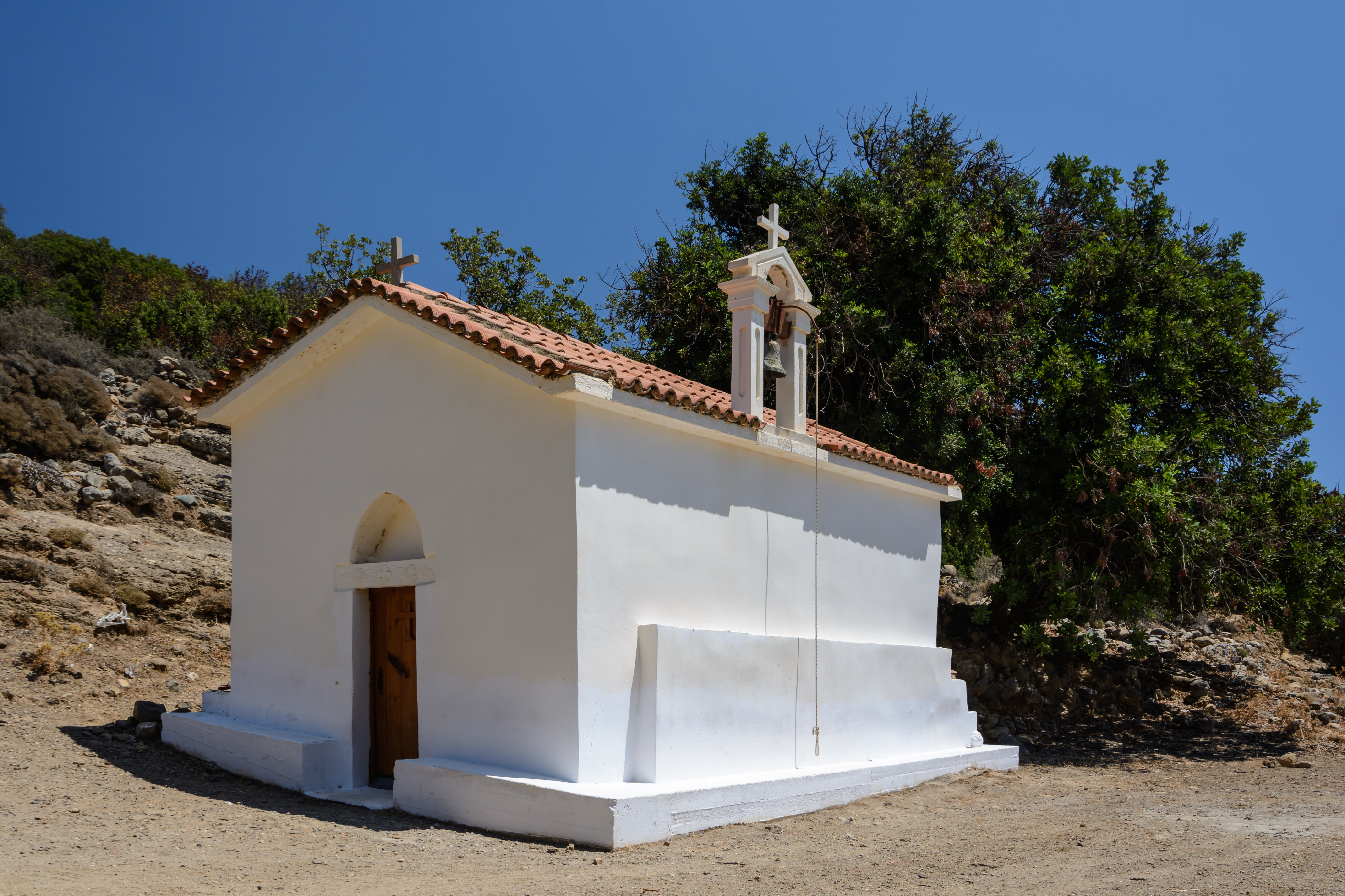 Ekklisia Agia Marina near Rodakino, Crete